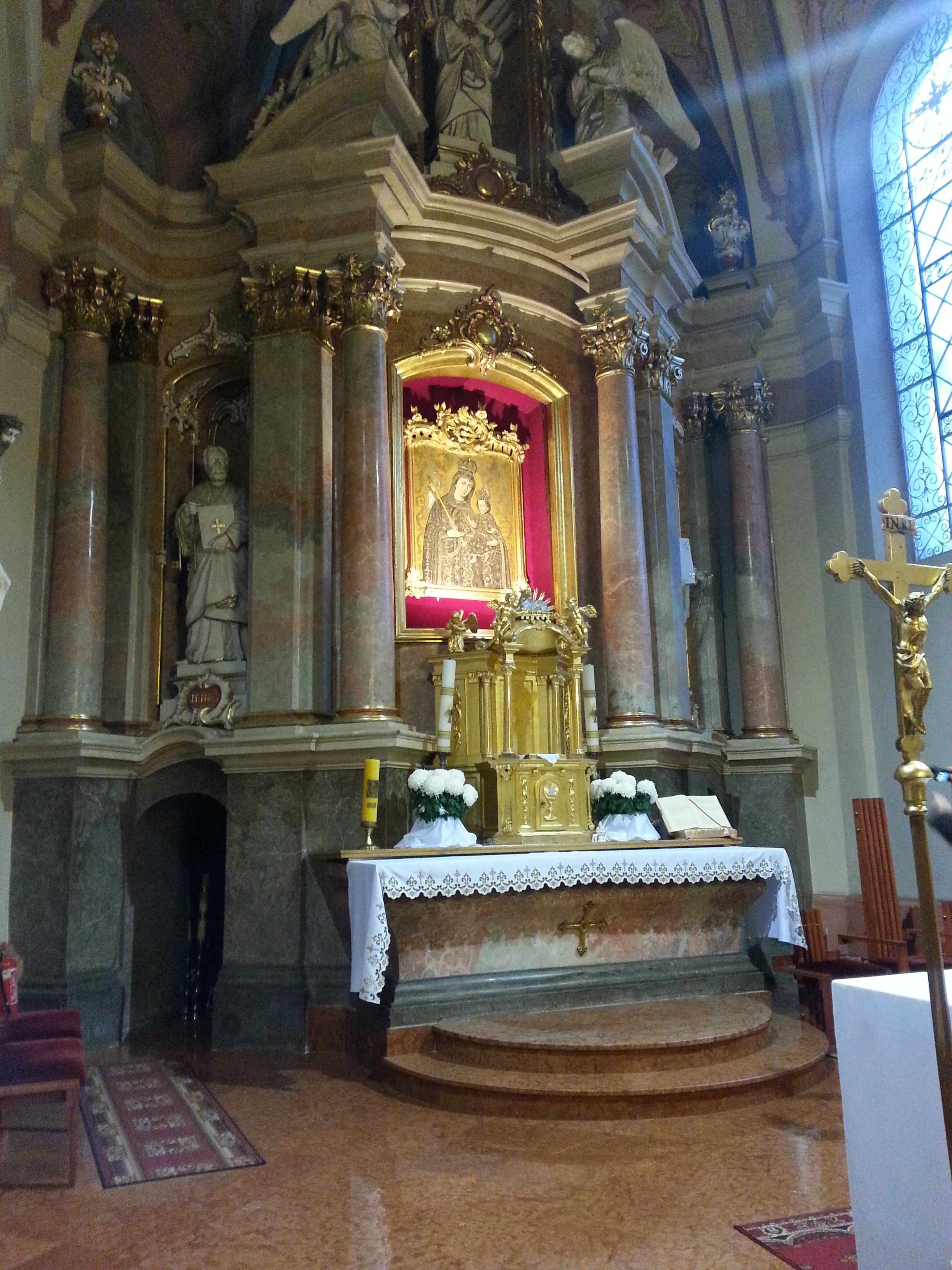 Interior of Saints Peter and Paul the Apostles church in Zagórów